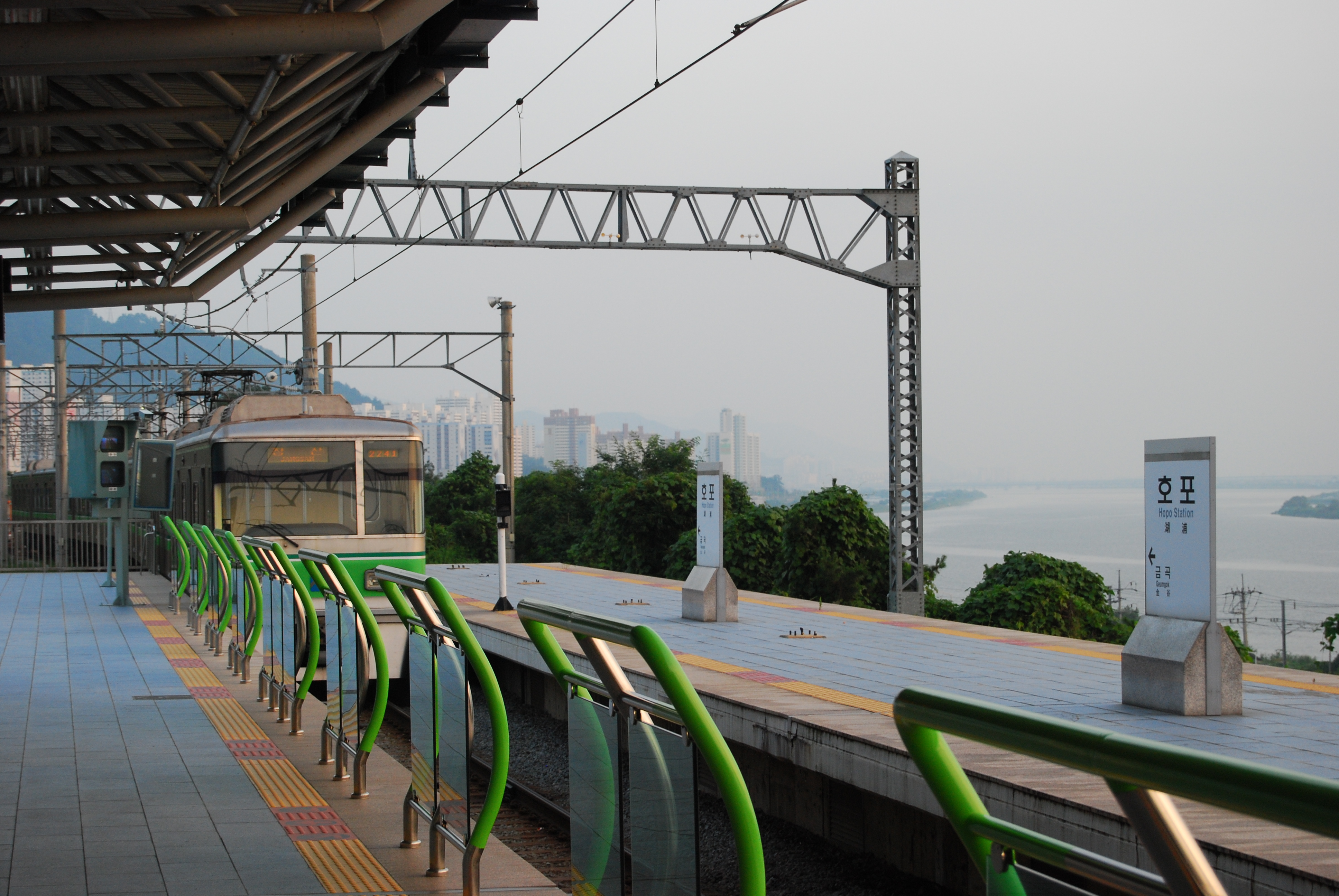 Hopo Station platform